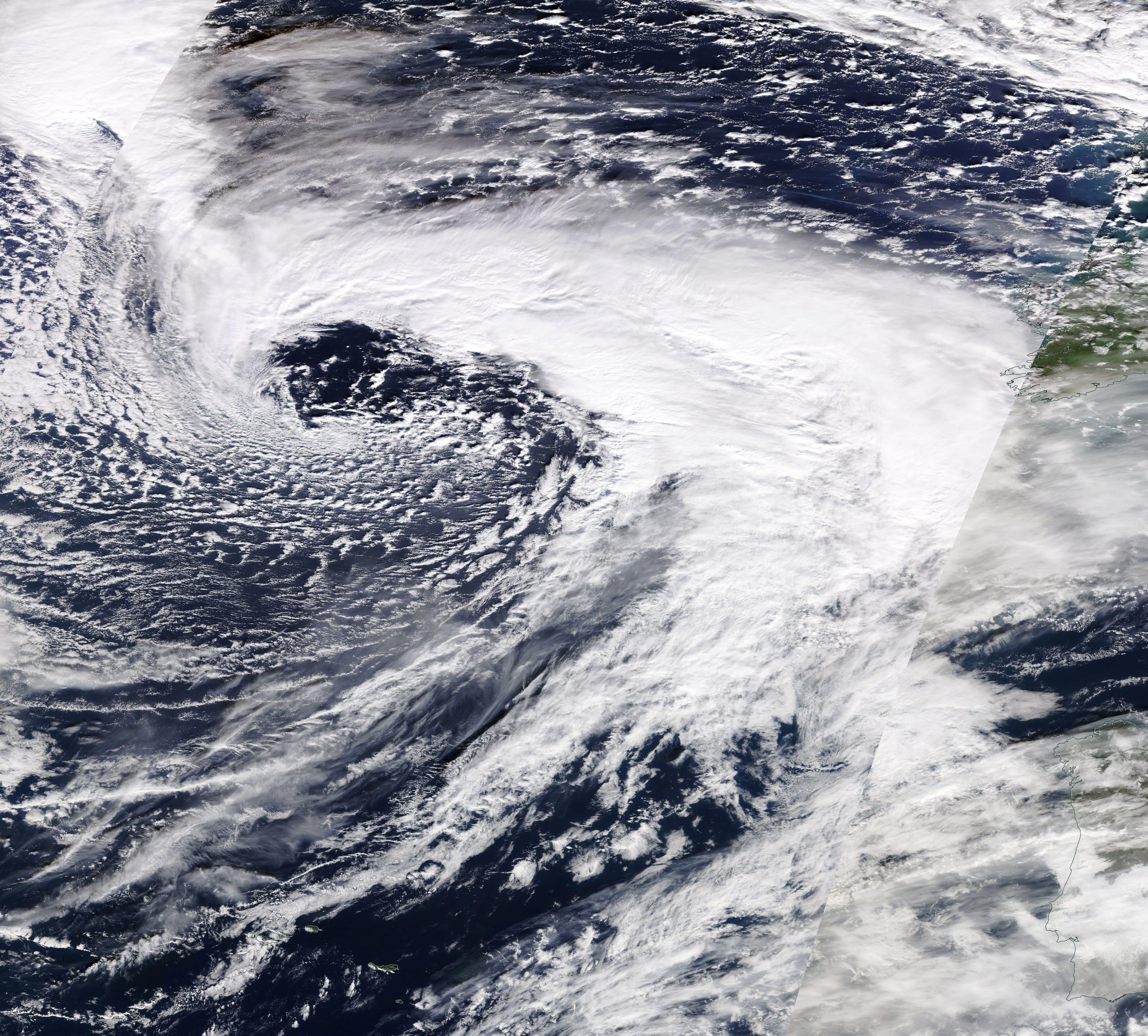 Storm Ines, of the 2019-20 European windstorm season, approaching Ireland on 12 February 2020.